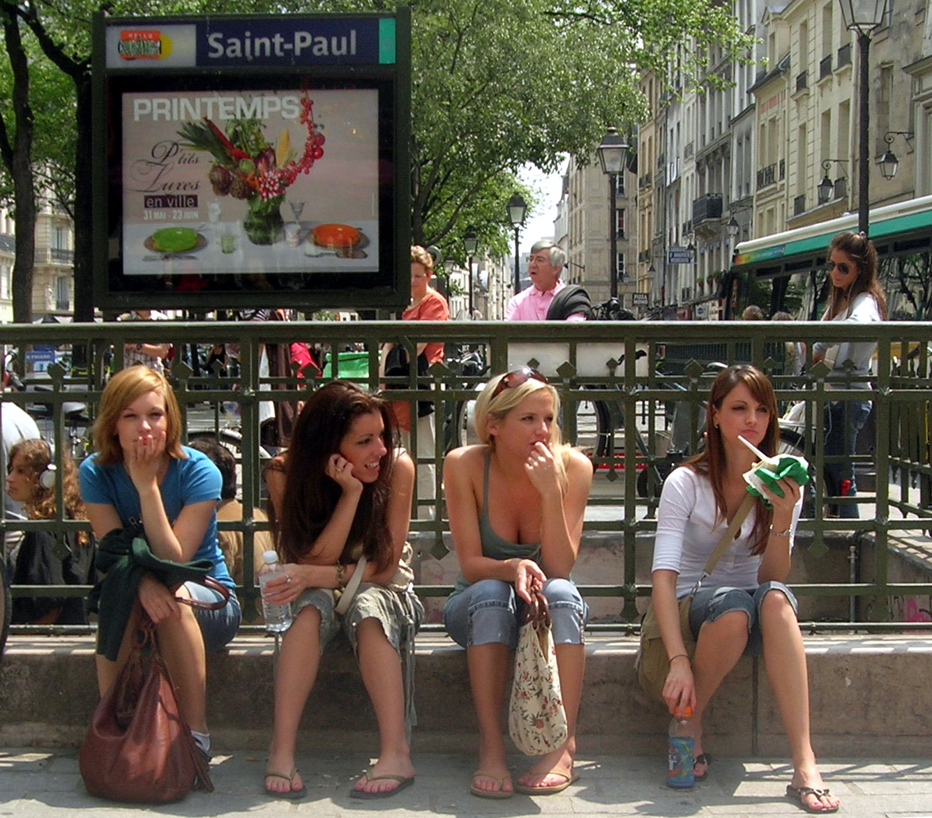 Girls at Saint Paul Metro in Paris.